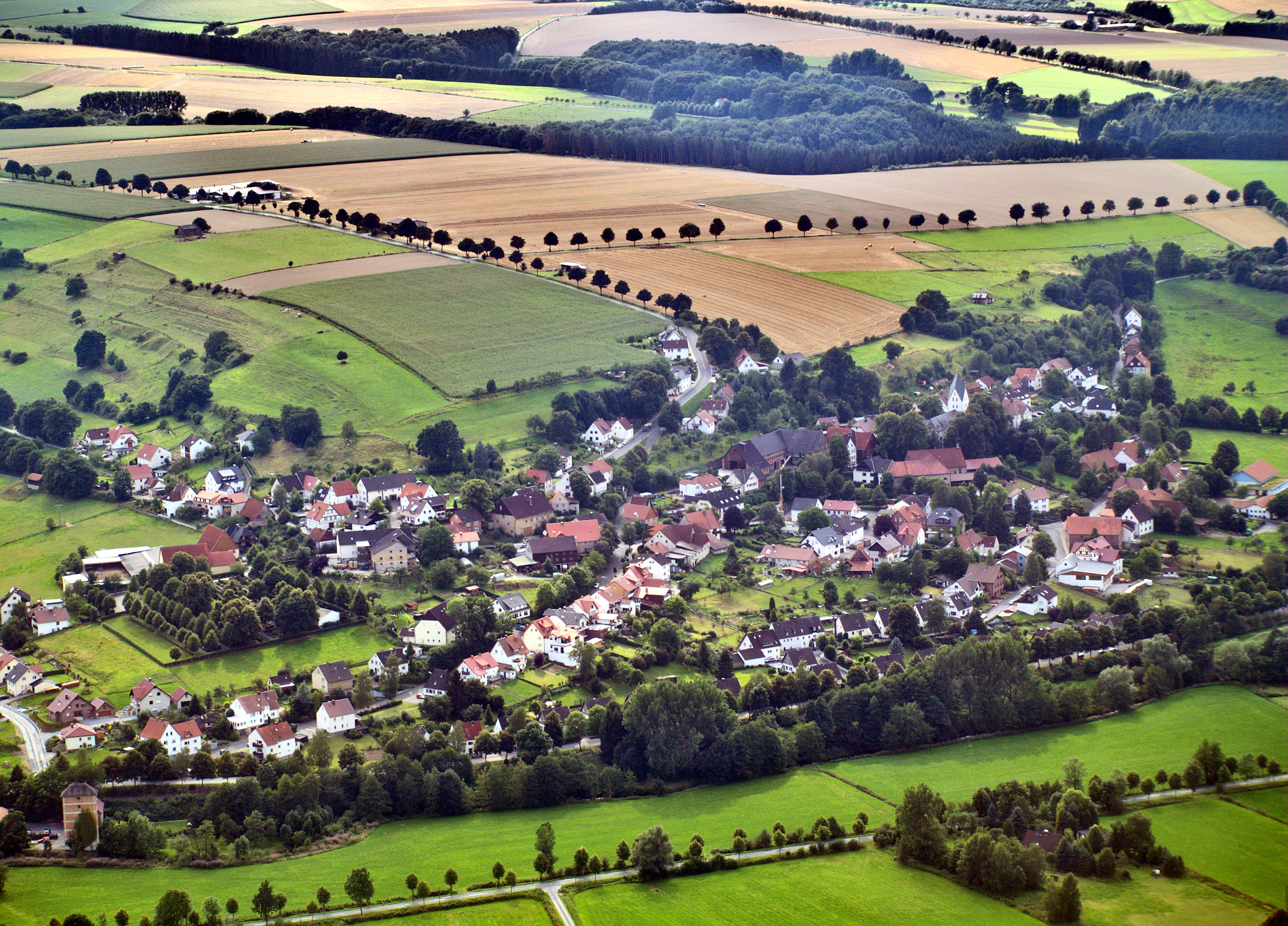 Siddinghausen, a village in the south of the City of Büren (Westphalia). Air photo taken heading south-west.